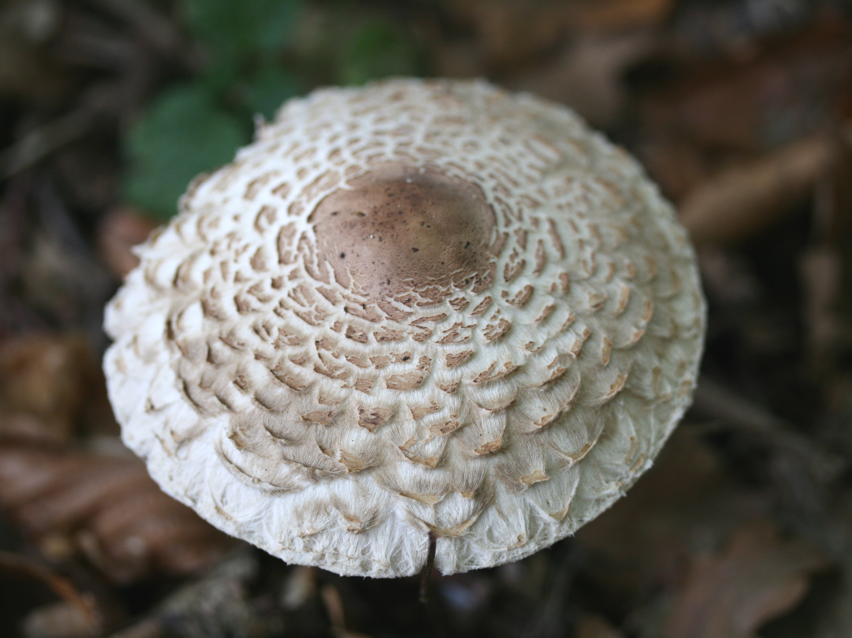 Shaggy parasol, Havré, Belgium